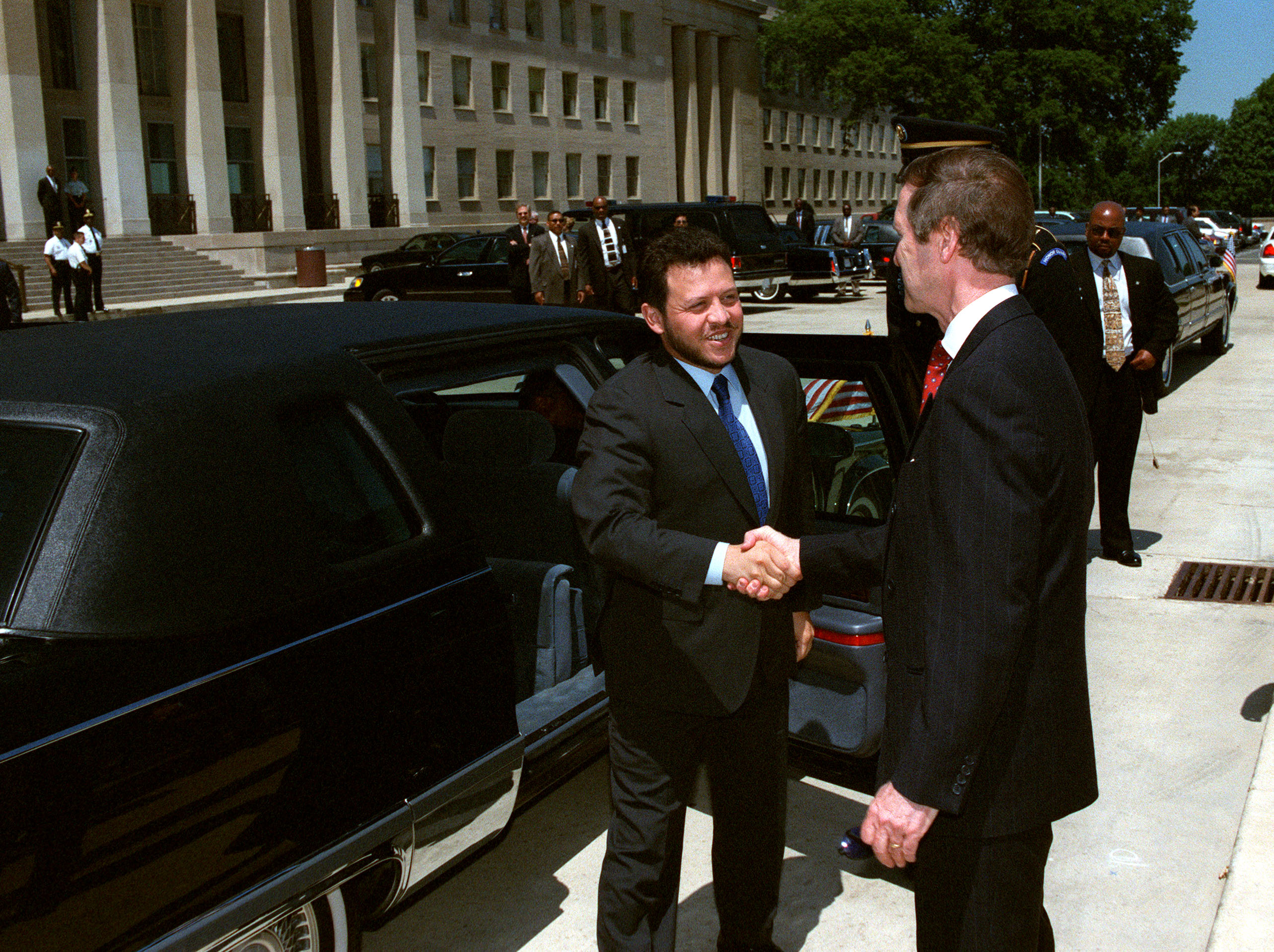 His Majesty King Abdallah II (left), of the Hashemite Kingdom of Jordan, is welcomed by Secretary of Defense William Cohen (right) as he arrives at the Pentagon on May 20, 1999. The king will be greeted with a military full honor arrival ceremony on the Pentagon River Parade field. The two men will later meet to discuss a range of security issues of interest to both nations. DoD photo by R. D. Ward. (Released) 990520-D-9880W-038